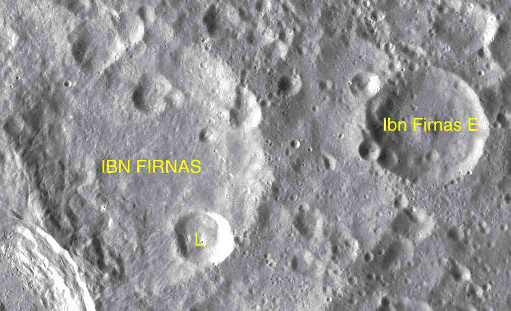 Part of the chart LAC-65 used for the presentation